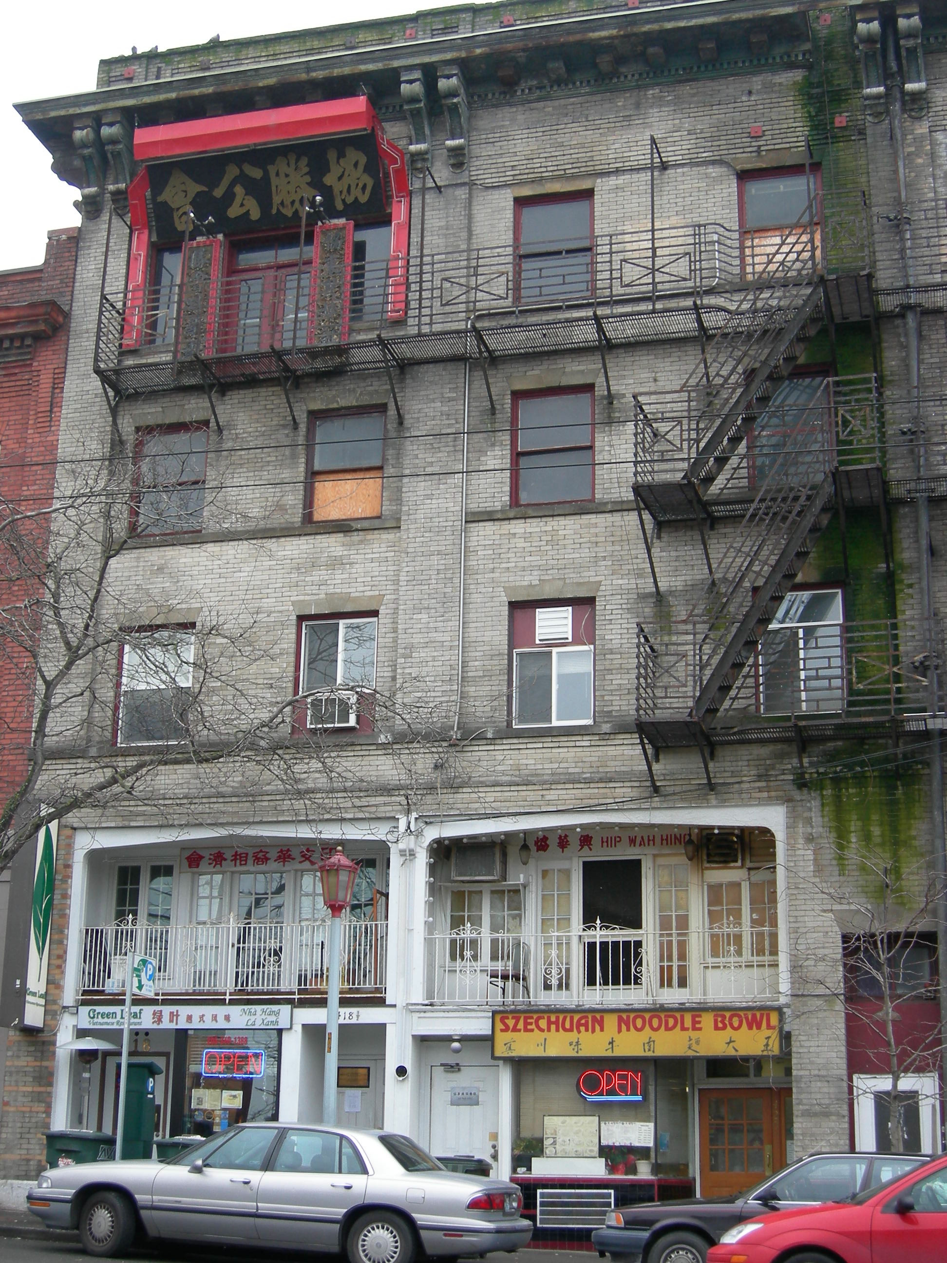 Building, 8th Ave. S., International District, Seattle, Washington. I believe that historically this is the Hip Sing Association Building; one sign prominently says "Hip Wah Hing". There appears to be a family association at upper left, but the sign is only in Chinese.